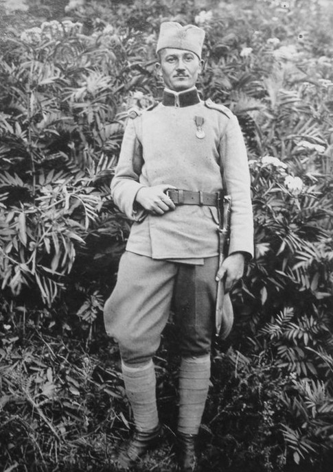 Momcilo Gavric in military uniform. The website where this is taken from mentions the year 1928, although this is most probably wrong, it should be 1929 or later, according to a better source.[1] ↑ Momčilo Gavrić - najmlađi vojnik Prvog svetskog rata ("Večernje novosti", 31 August 2013)